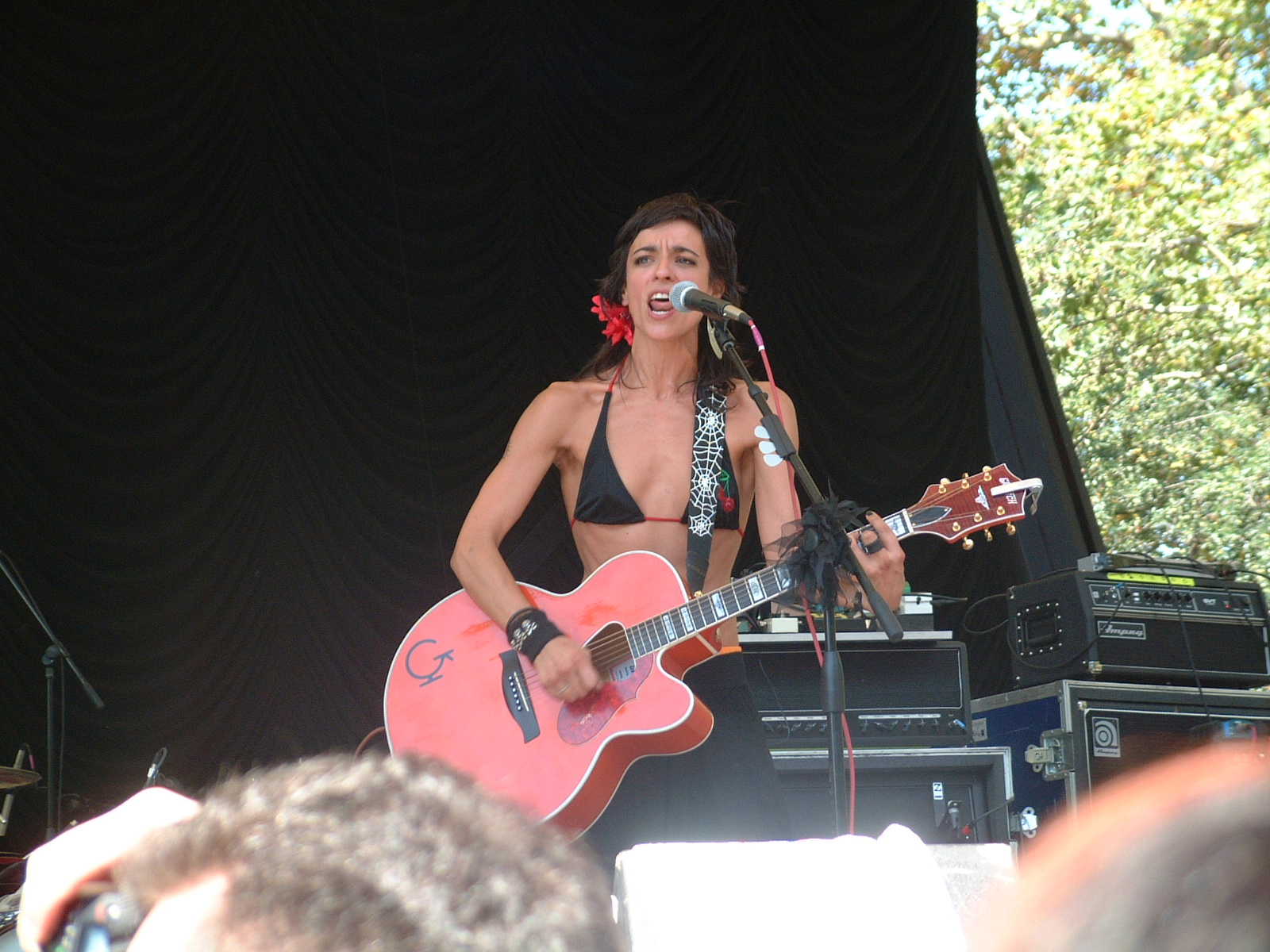 Bebe at NYC Summerstage 2005.